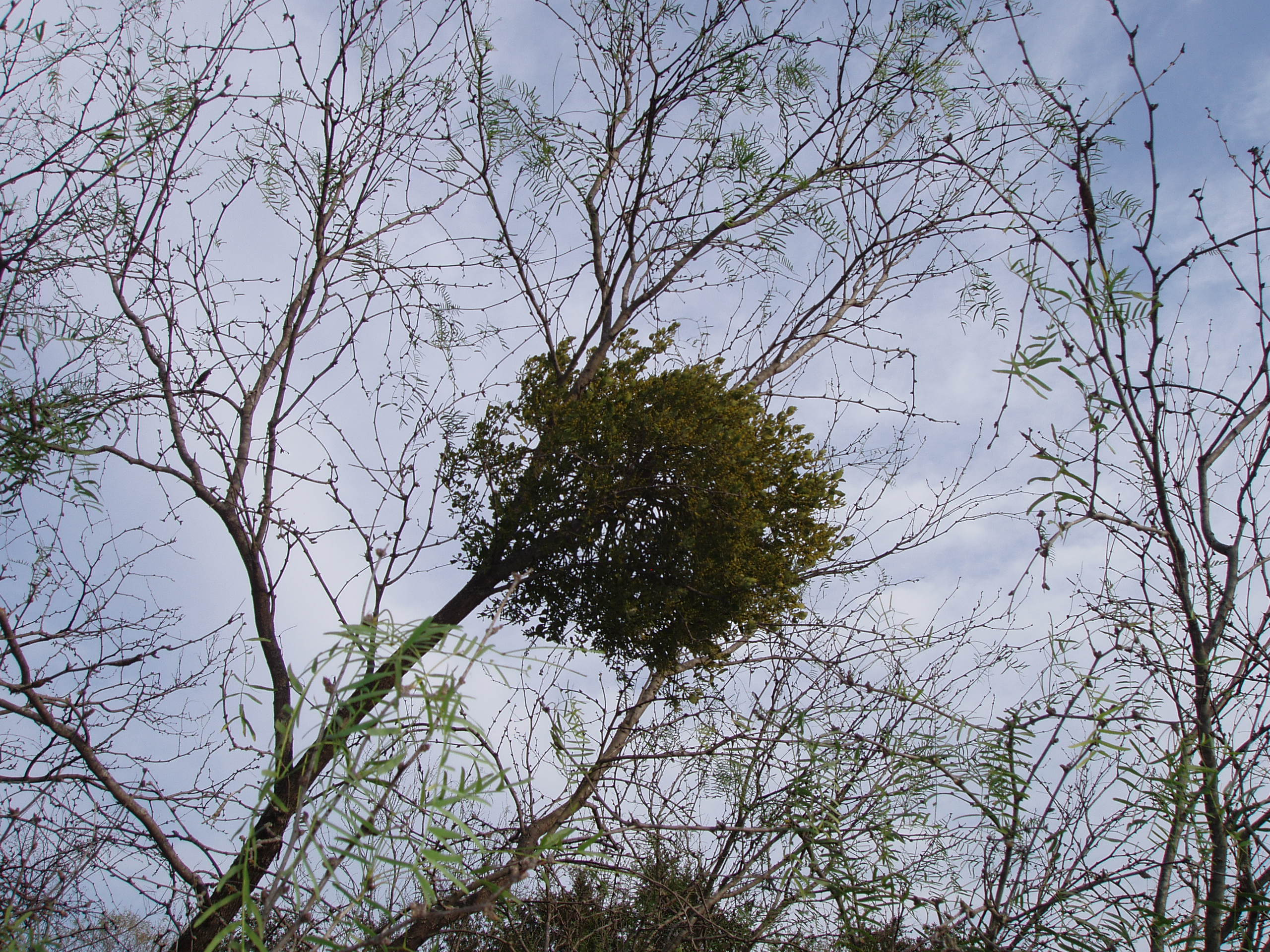 Flickr description Hood County, Texas, USA 8 December 2007 Mistletoe is a hemiparasite (parasitic, but also partially autotrophic) that can be found living on a variety of tree species in north central Texas. Sugarberry trees (Celtis spp.), elms (Ulmus spp.), mesquite and horseapple (Maclura pomifera) all play host.